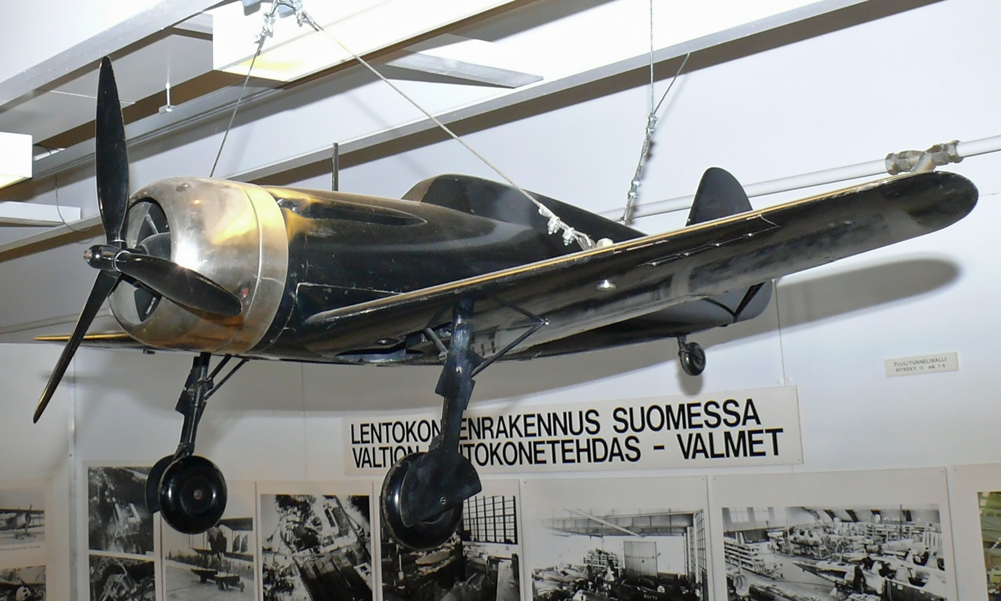 The model of VL Myrsky for wind tunnel test in Aviation Museum of Central Finland